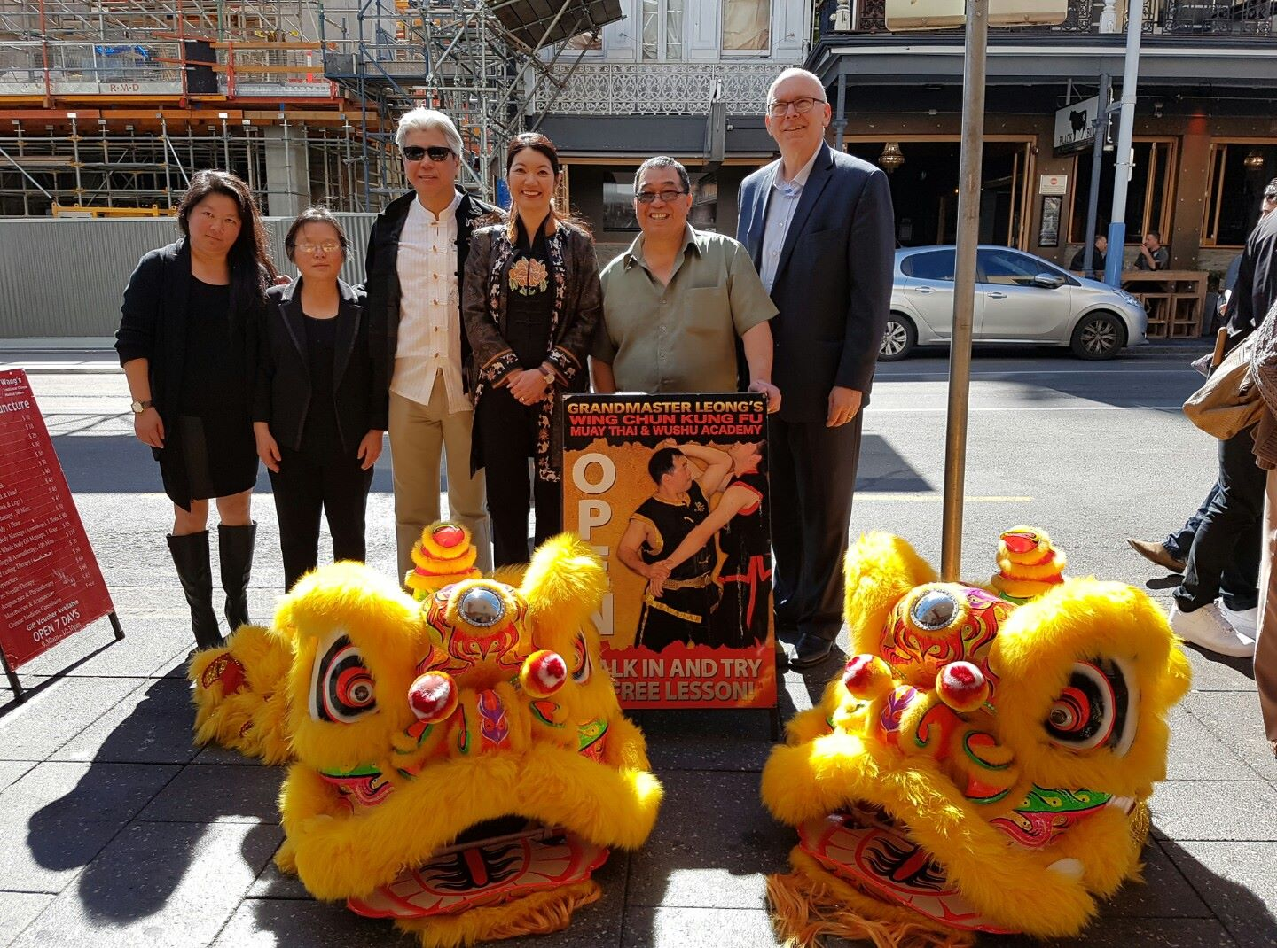 Grand Master Felix Leong's Rebirth from the ashes ceremony in Adelaide with State members for parliament Jing Lee and David Pisoni